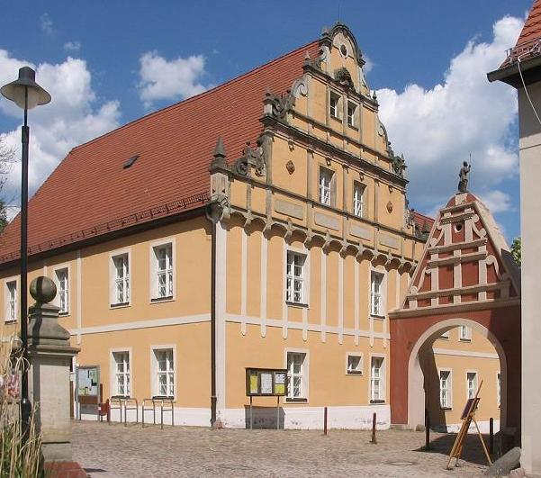 Männekentor (gate) and town hall beside the palace Wiesenburg. The palace contains remains of a castle from 12th century. Modification to a palace in 15th century, rebuilding after Thirty Years’ War until beginning 18th century. The village Wiesenburg is a municipality in the district Potsdam-Mittelmark of the German state Brandenburg and is situated in the nature park Naturpark Hoher Fläming.